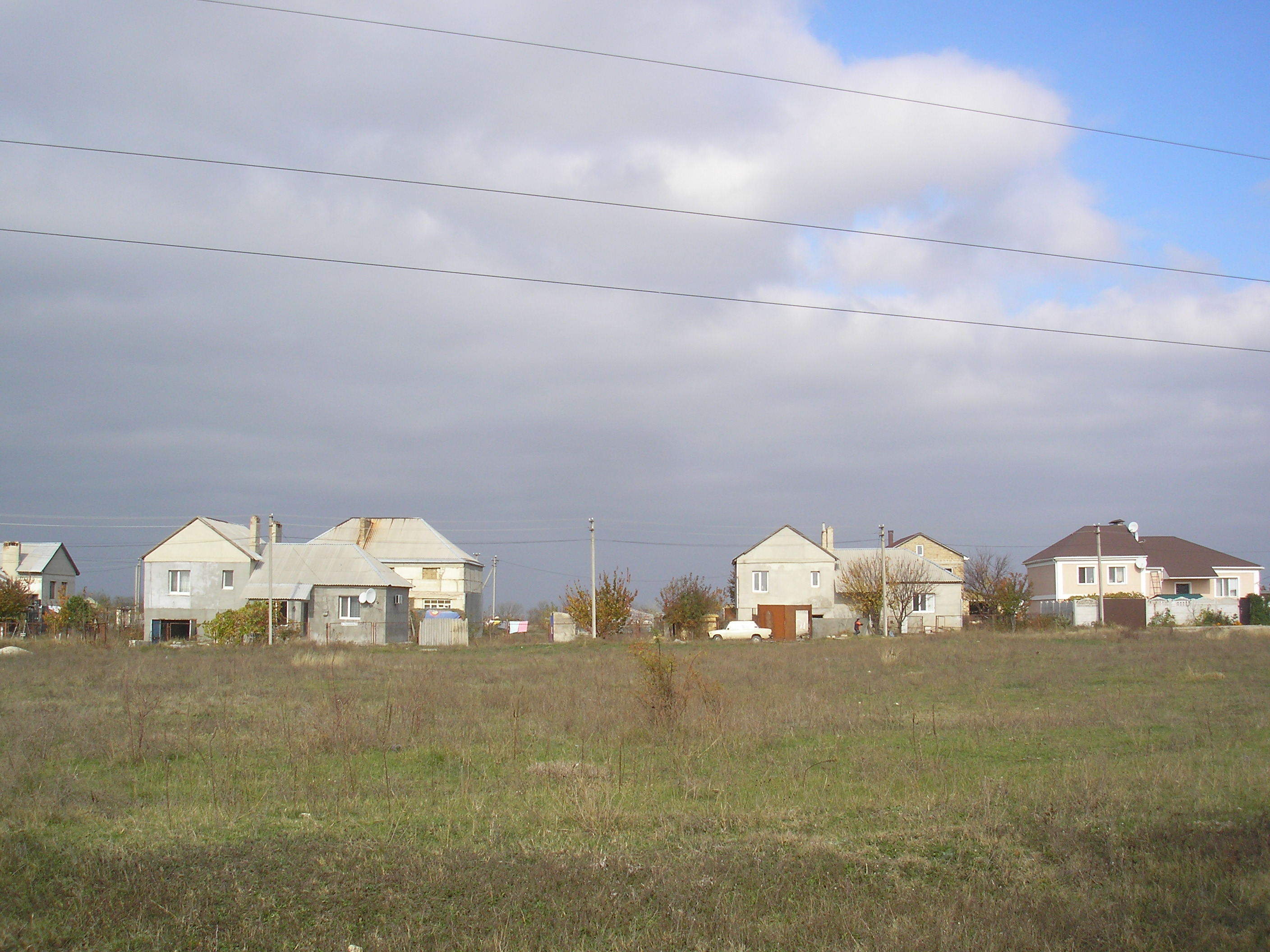 Settlement Aykavan, Simferopol district, Crimea